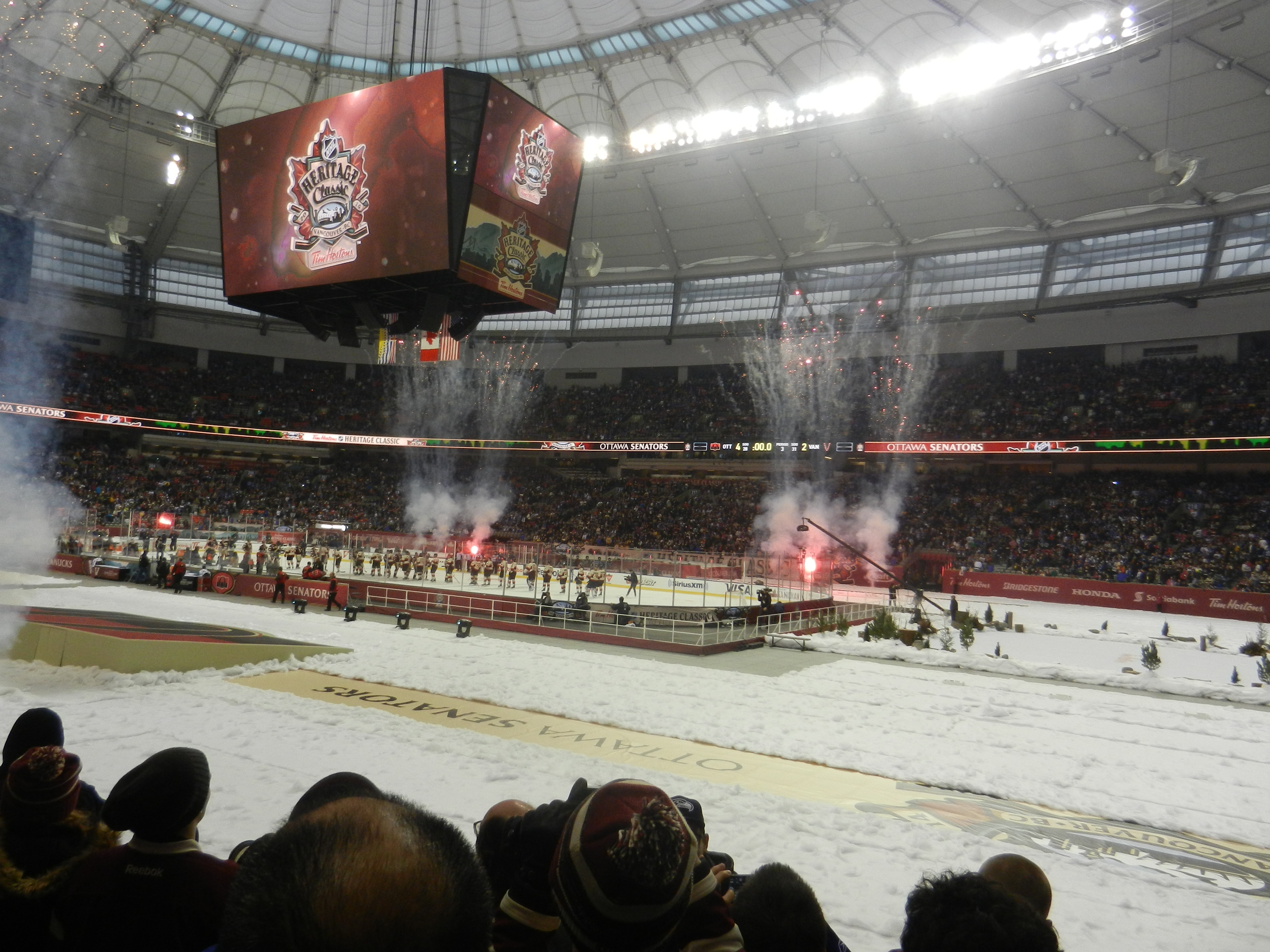 Fireworks are set off at the end of the 2014 Heritage CLassic